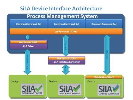 Layout of the three integration levels available in SiLA